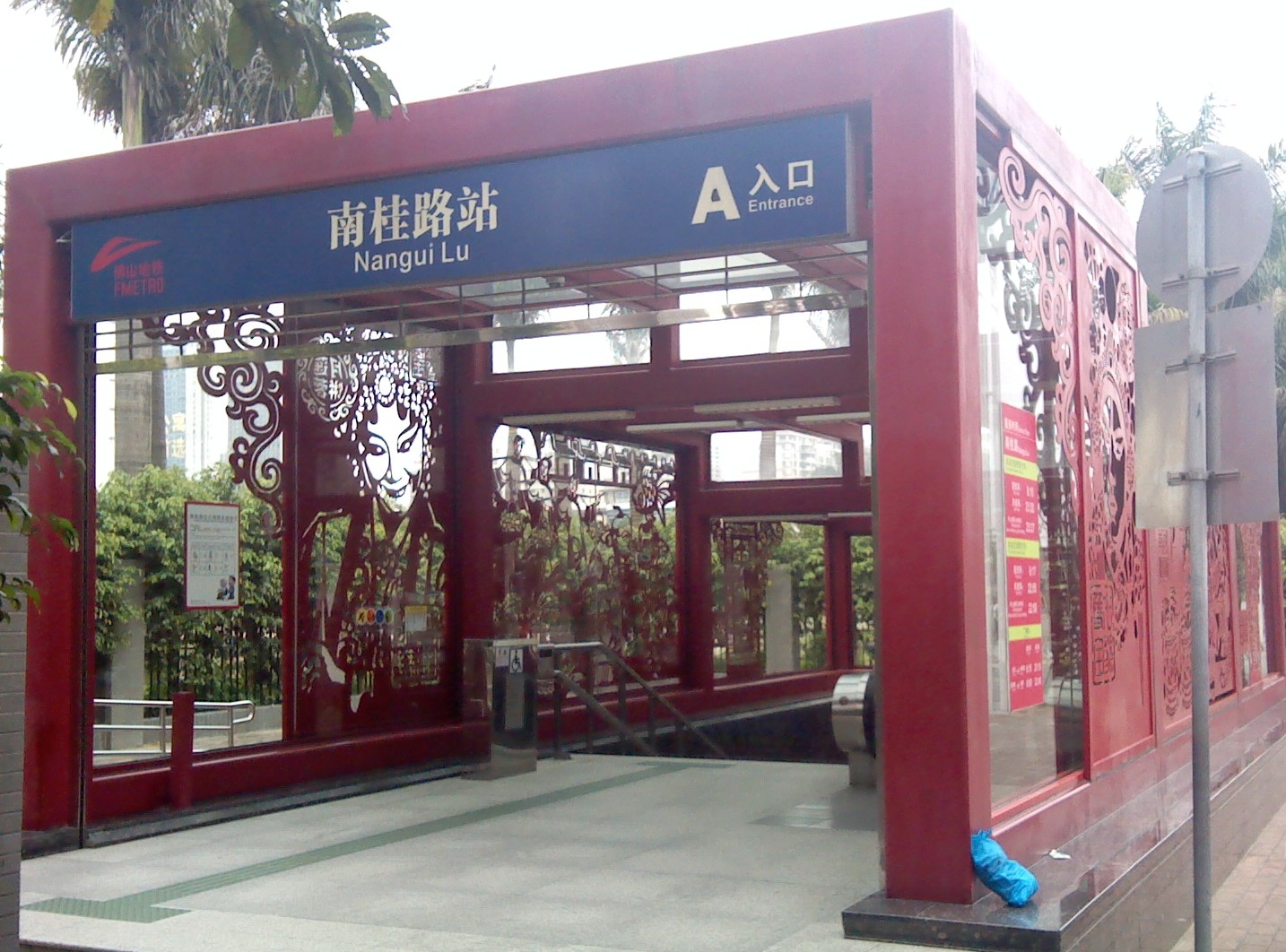 南桂路站A出入口